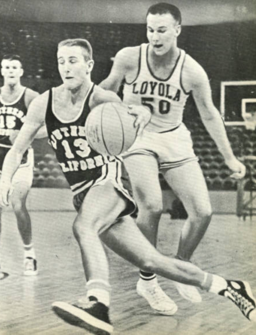 USC Player Chris Appel drives on a Loyola player in 1961